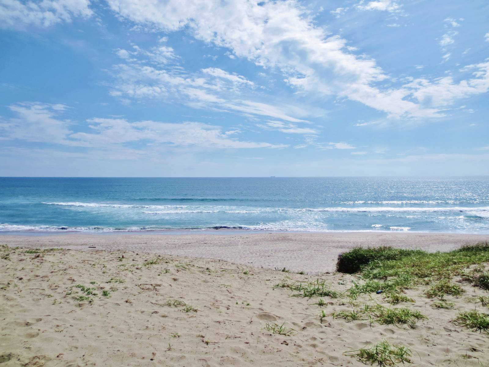 Enshunada (view from Hamaoka Dunes).